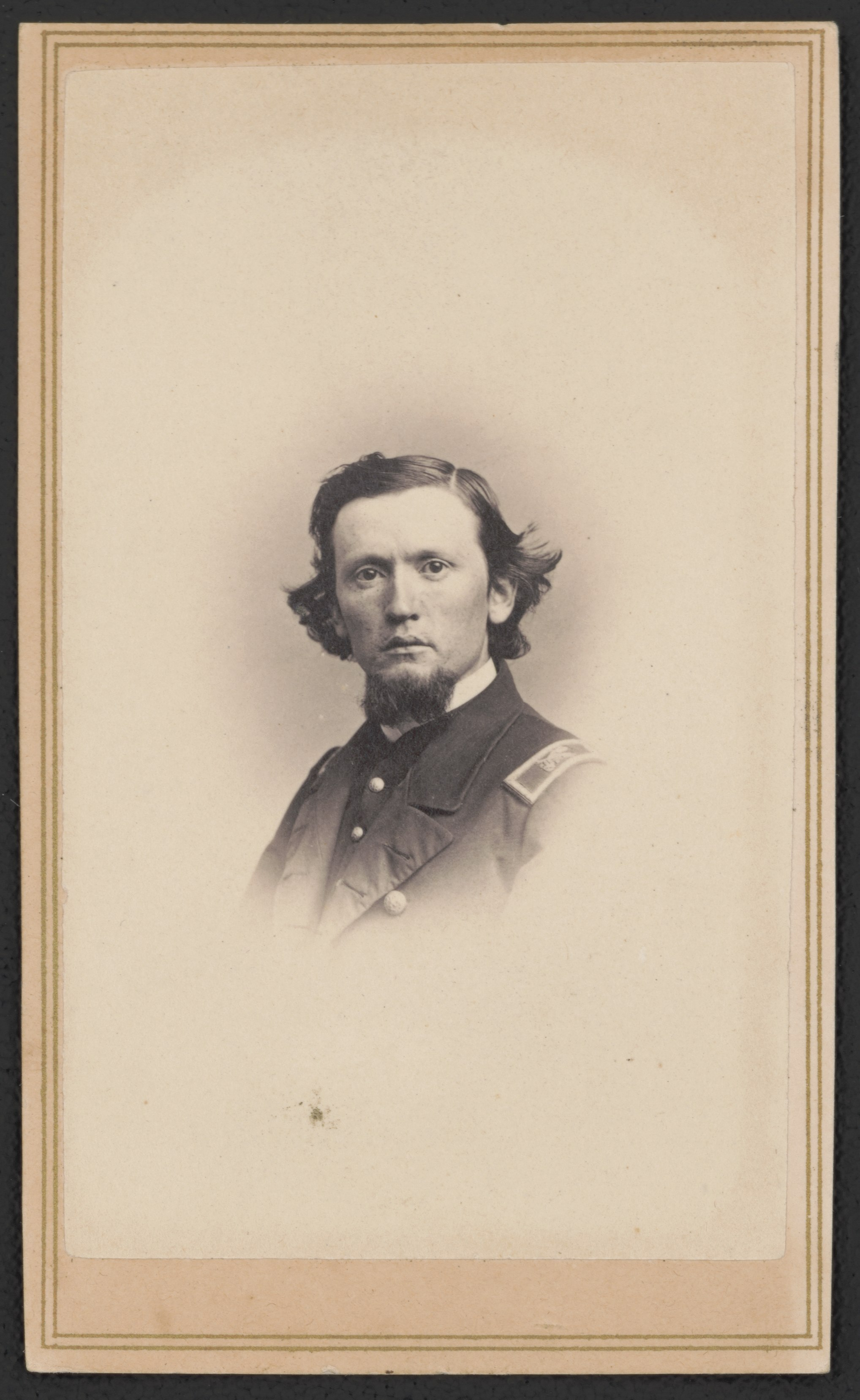 Title: Sailor in uniform] / Bogardus, photographer, 363 Broadway, New York Abstract/medium: 1 photograph : albumen print on card mount ; mount 11 x 6 cm (carte de visite format)